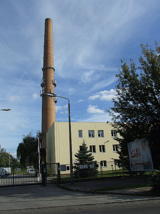 Block heat and power plant Glienicker Weg 95 at Berin-Adlershof